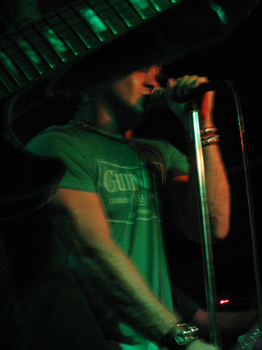 Chirs Jericho performing onstage as part of Fozzy in October 2005